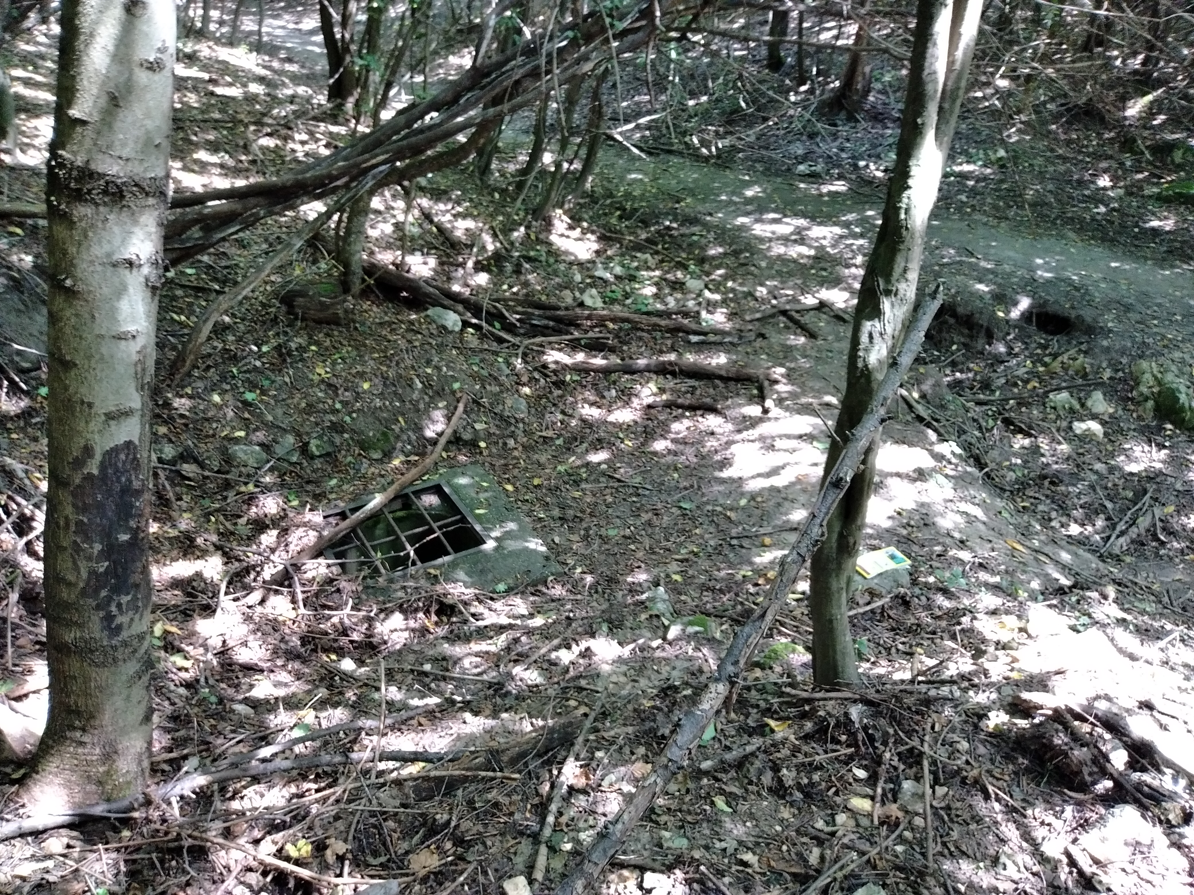 Entrance of Szende Cave in Vértesszőlős.